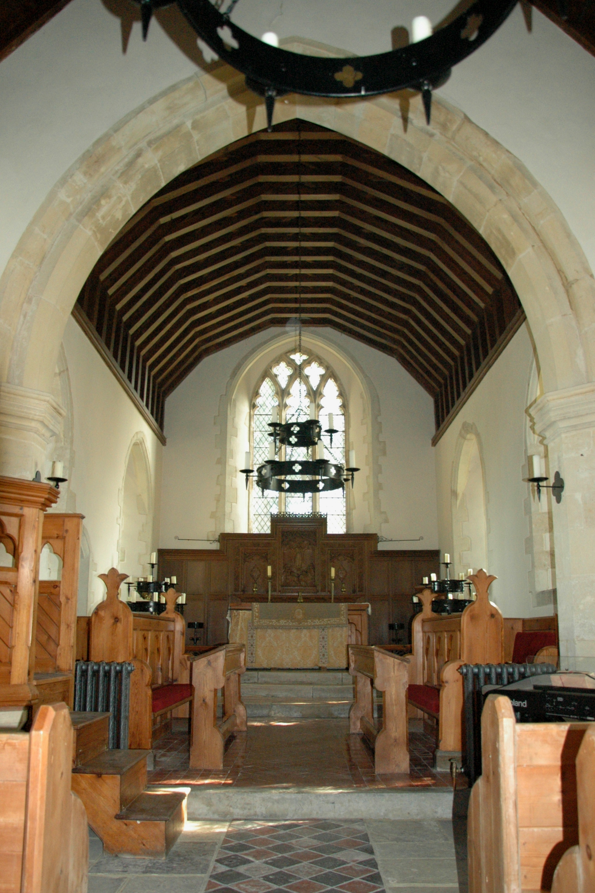 Church of England parish church of St Nicholas, Emmington, Oxfordshire: view from the nave, looking east to the chancel